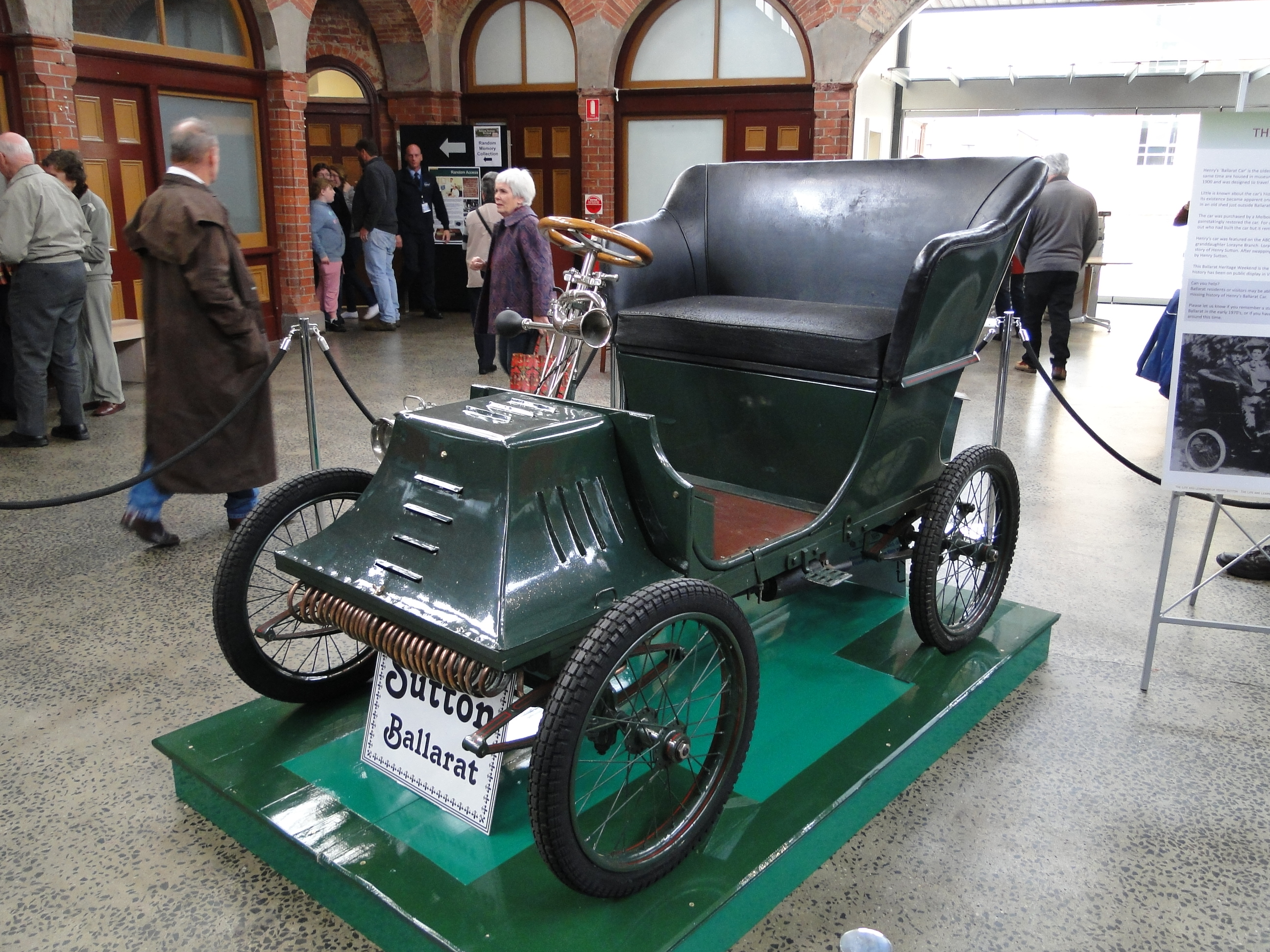 A Henry Sutton car, built in Ballarat, Victoria, Australia, in 1900, believed to be the first front wheel drive vehicle in the world. On display in 2011 at the Ballarat Heritage Festival.